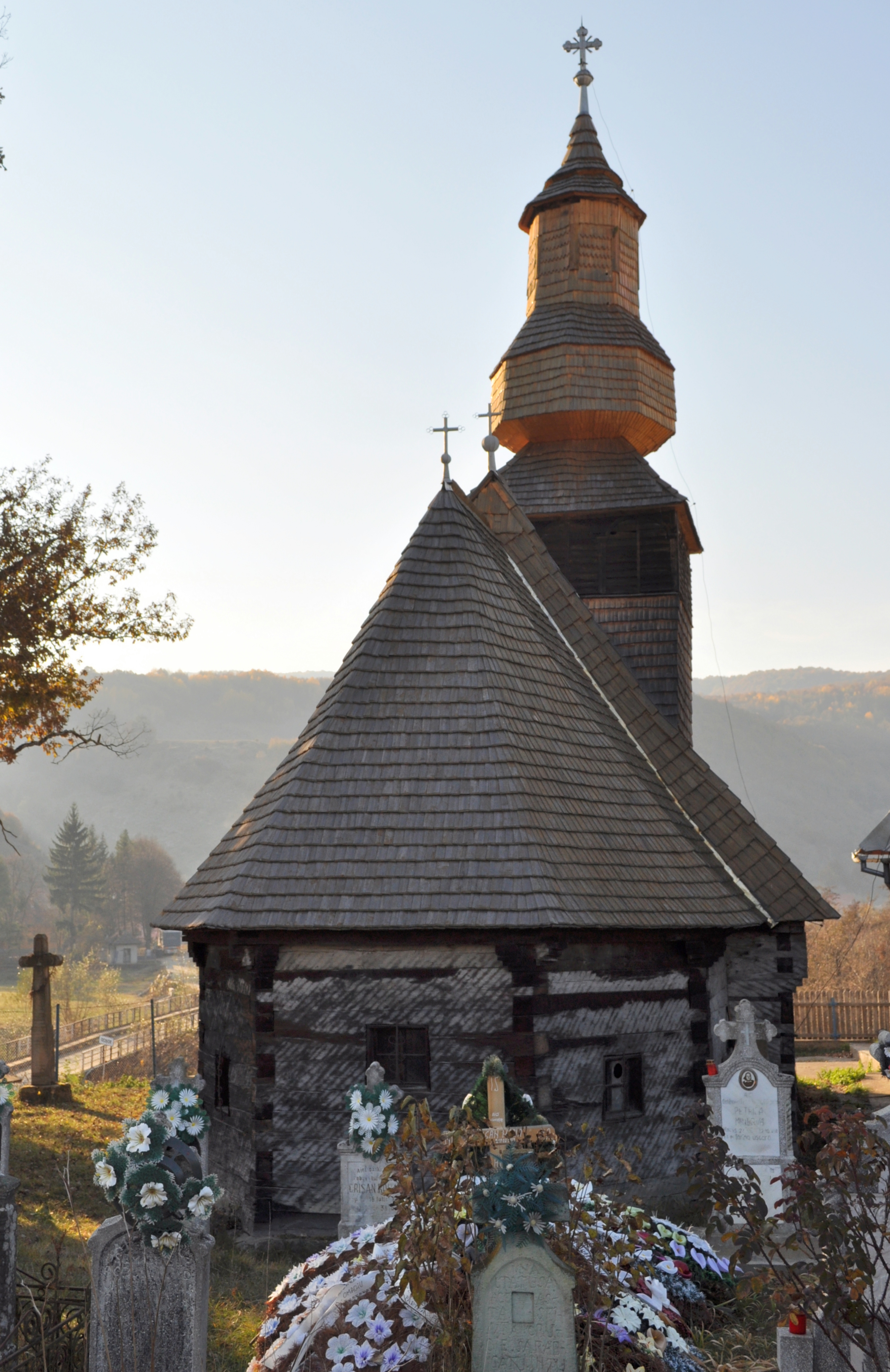 Wooden church in Ocișor, Hunedoara county, Romania